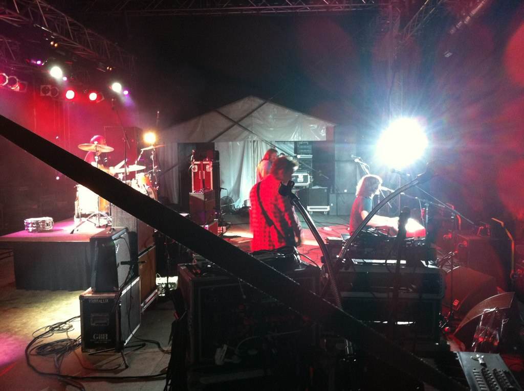 Thirsty Merc performing on stage, 1 May 2011, Queensland.